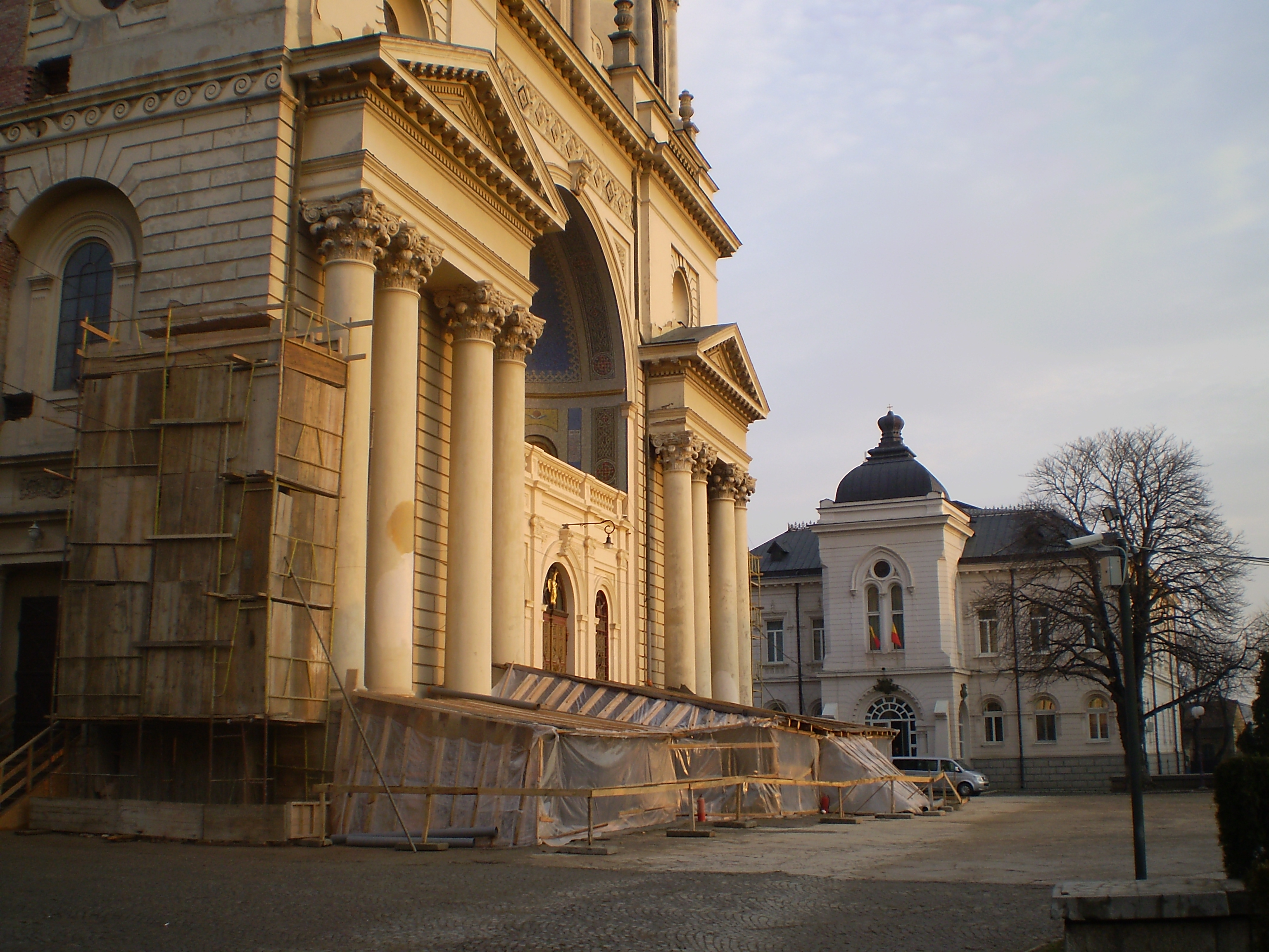 Metropolitan Orthodox Cathedral , Metropolitan Palace, Iaşi, RomaniaRomână: Catedrala Metropolitană Ortodoxă ,Palatul Metropolitan, Iaşi, România